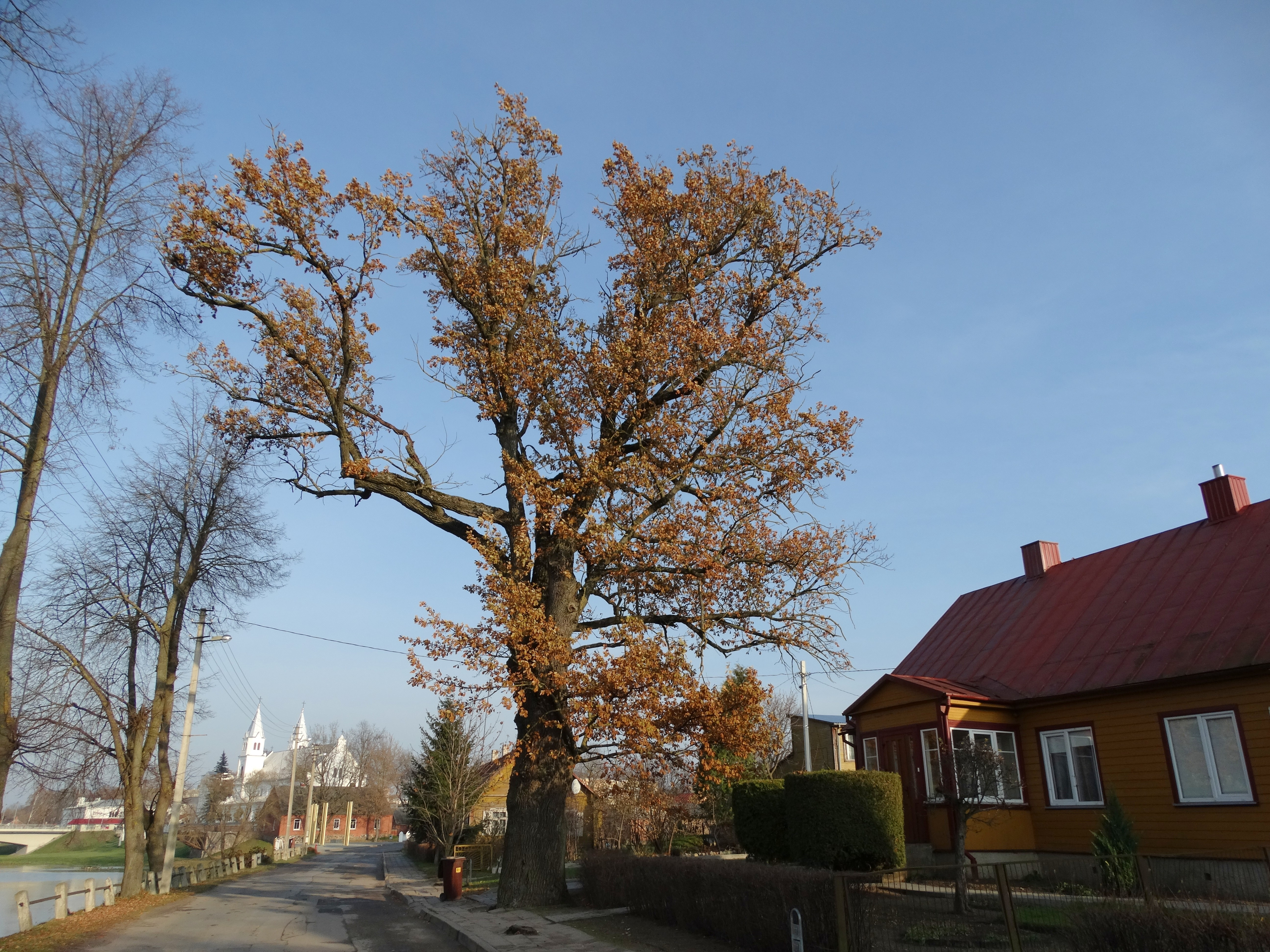 Oak tree in Pasvalys, Lithuania